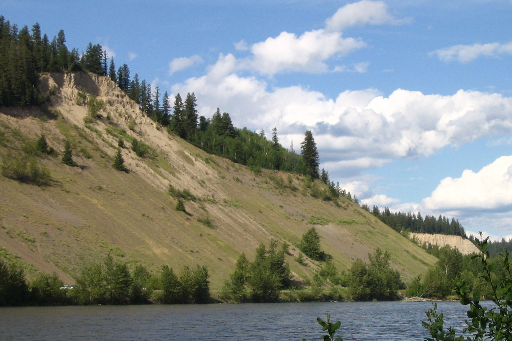 These cutbanks on the Nechako River are the signature natural landmark of Prince George, British Columbia.